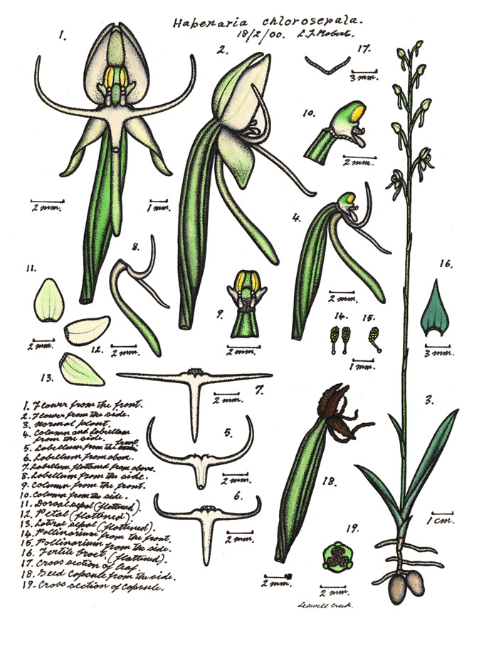 This image is one of a series by Lewis Roberts